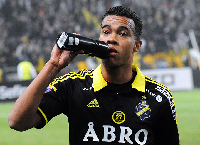 Robin Quaison of AIK in 2014